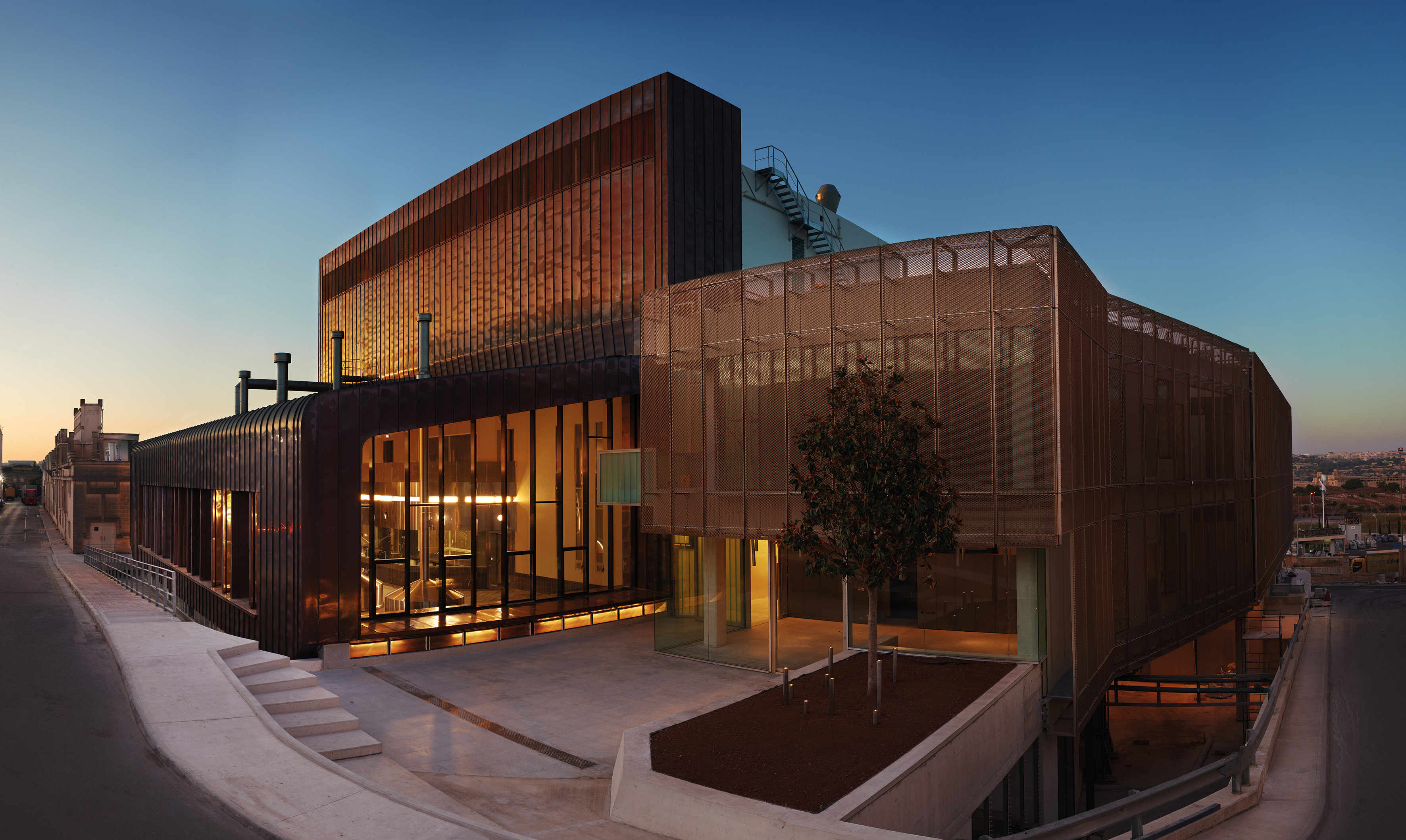 Stitched Panorama